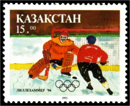 Stamp of Kazakhstan